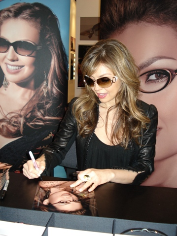 Thalía signing autographs at the presentation of her eyewear collection at Vision Expo, NY, 23 March, 2007.